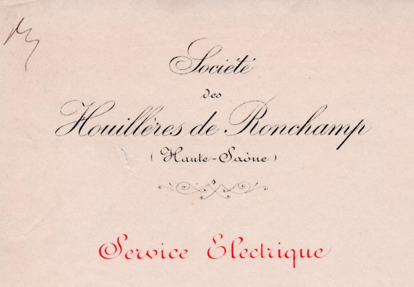 Logo of the « Houillères de Ronchamp » company, France begining of 20th century.